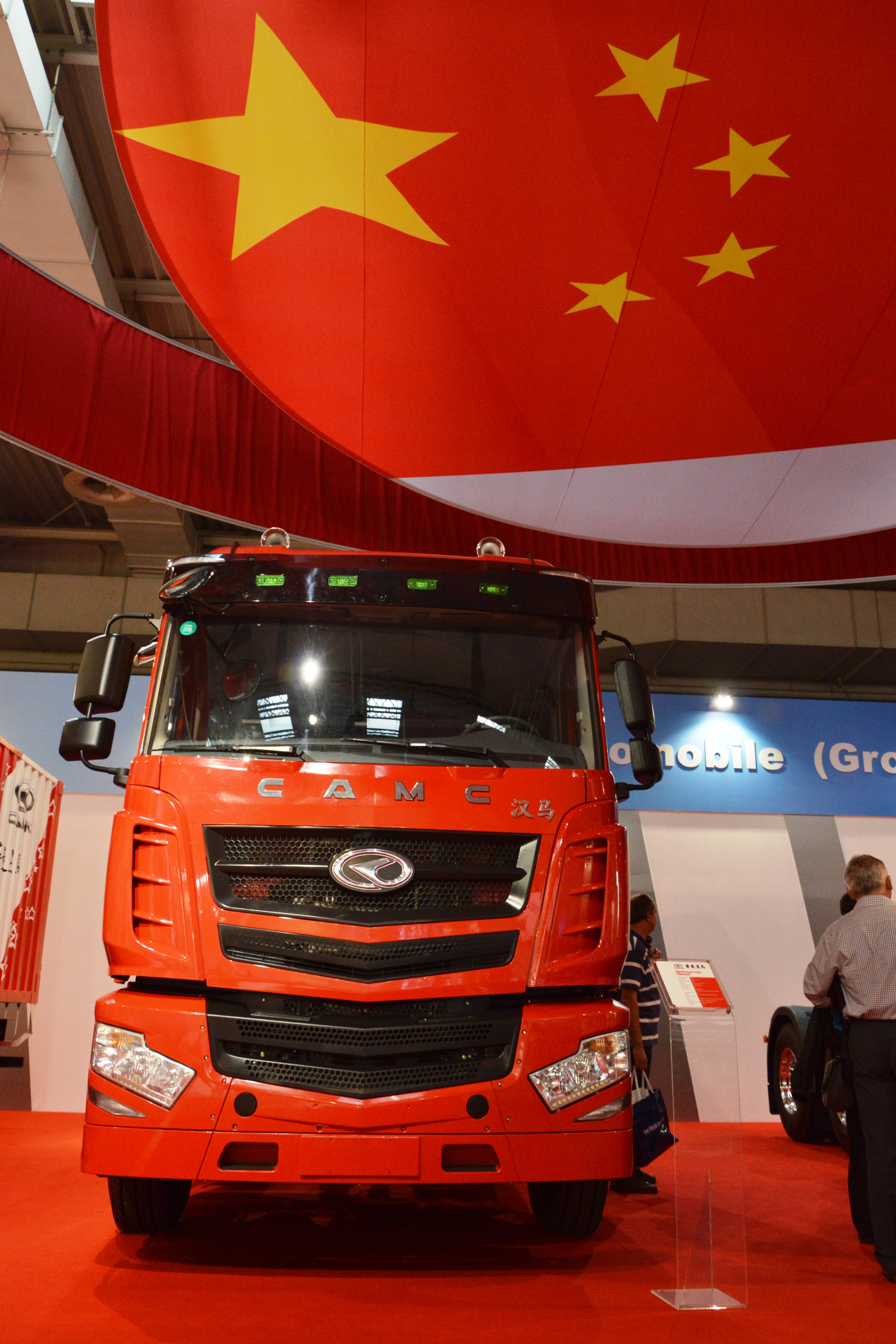 CAMC H08-M tractor truck 6x4. Wheelbase: 3350+1450. Engine: CM6D18.420 50. Dimension in mm: 7268*2495*3868. GWC (T): 8,65 T. Photo taken at exhibition IAA 2014 in Hanover, Germany.